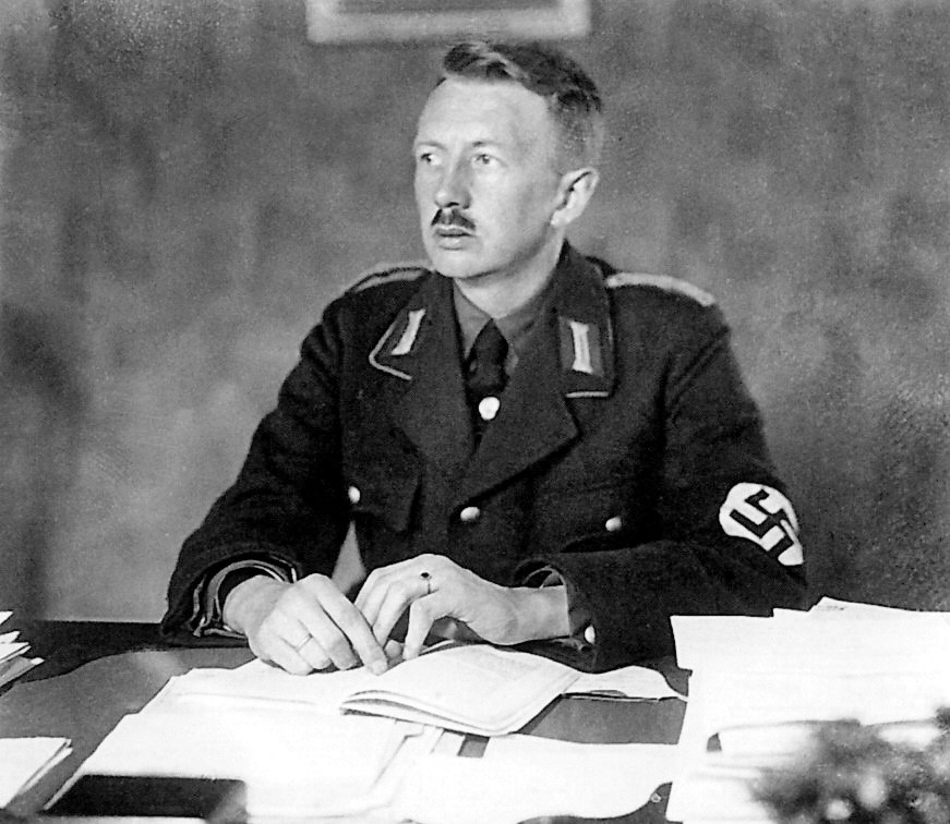 Ulrich Burgstaller (1894-1935), German Lutheran pastor and politician of the National Socialists